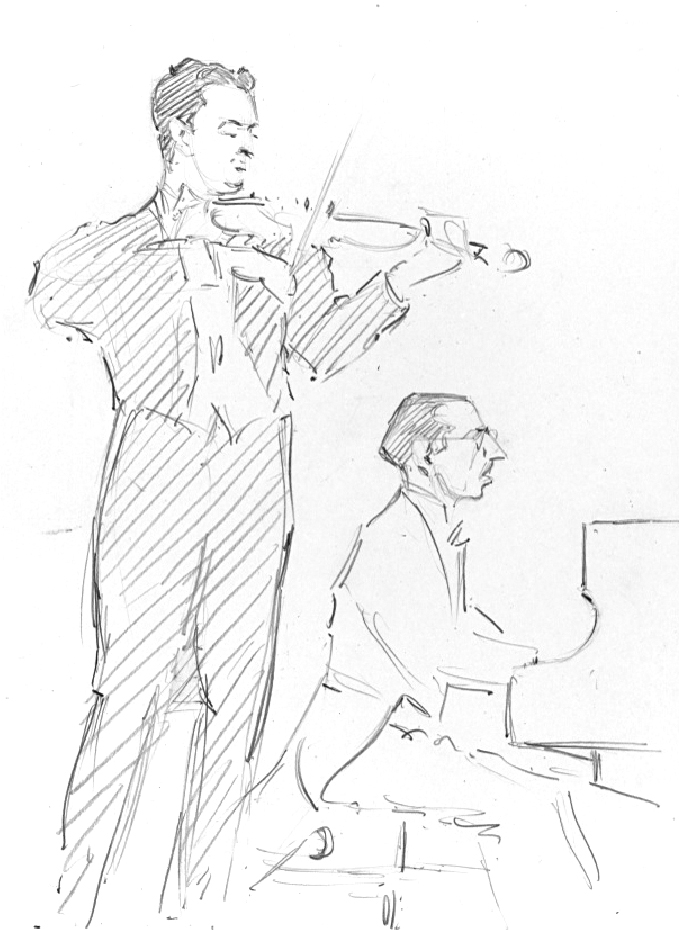 Igor Stravinski and Samuel Dushkin pencil on paper 23 x 17 cm unsigned 1930s